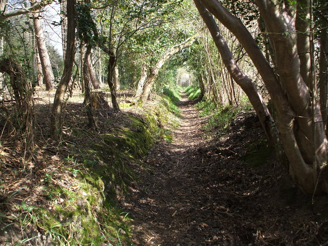 Shaded Path to Sandy Down This footpath is between the Hobler Inn and Sandy Down.